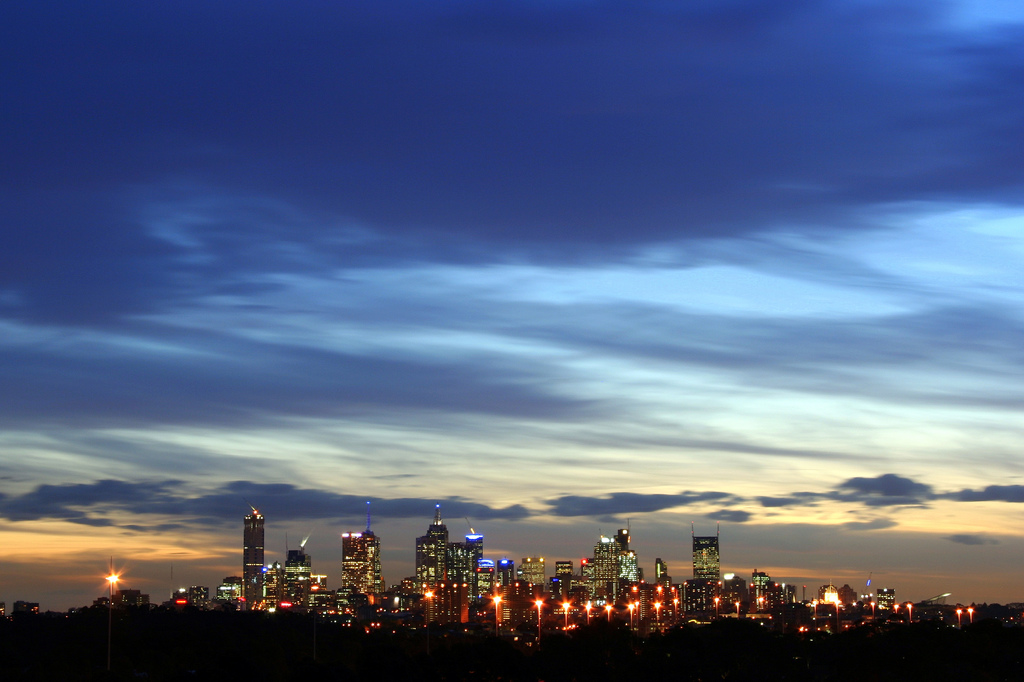 Night view, Melbourne, Australia